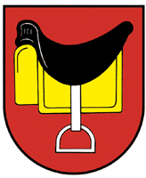 Coat of arms of Sattel, Canton Schwyz, Switzerland